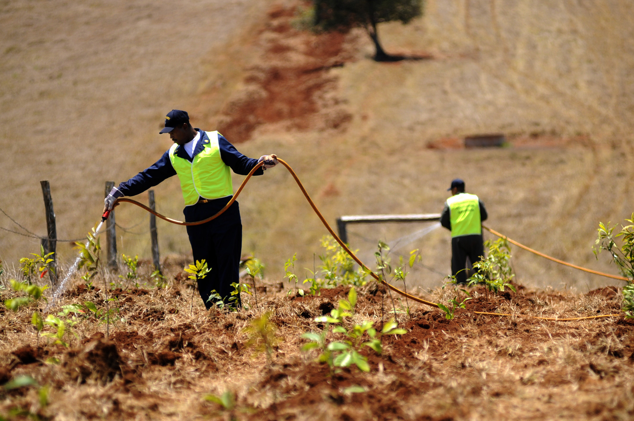 CAIRNS, Australia (Oct. 14, 2009) Sailors assigned to the amphibious command ship USS Blue Ridge (LCC 19) water recently planted trees at the Barrine Nature Refuge during a community service project with Conservation Volunteers Australia. (U.S. Navy photo by Lt j.g. Shawn P. Eklund/Released)